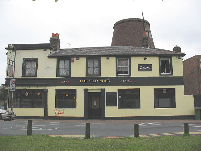 The Old Mill, near to Plumstead, Greenwich, Great Britain. The derivation of the name of this public house on Old Mill Road, Plumstead is obvious - look behind it. TQ4477 : Plumstead windmill